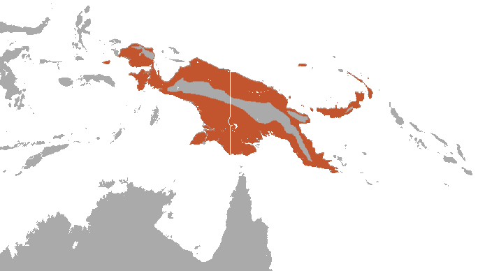 Bismarck Flying Fox (Pteropus neohibernicus) range